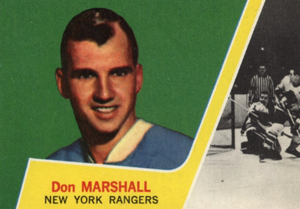 Don Marshall